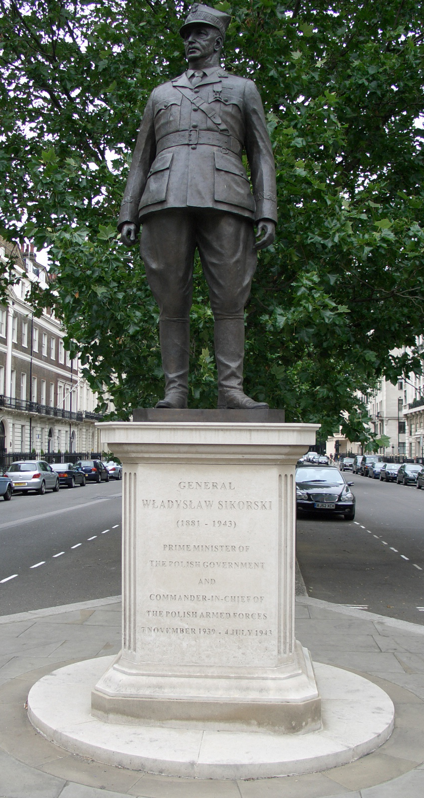 Portland Place, London